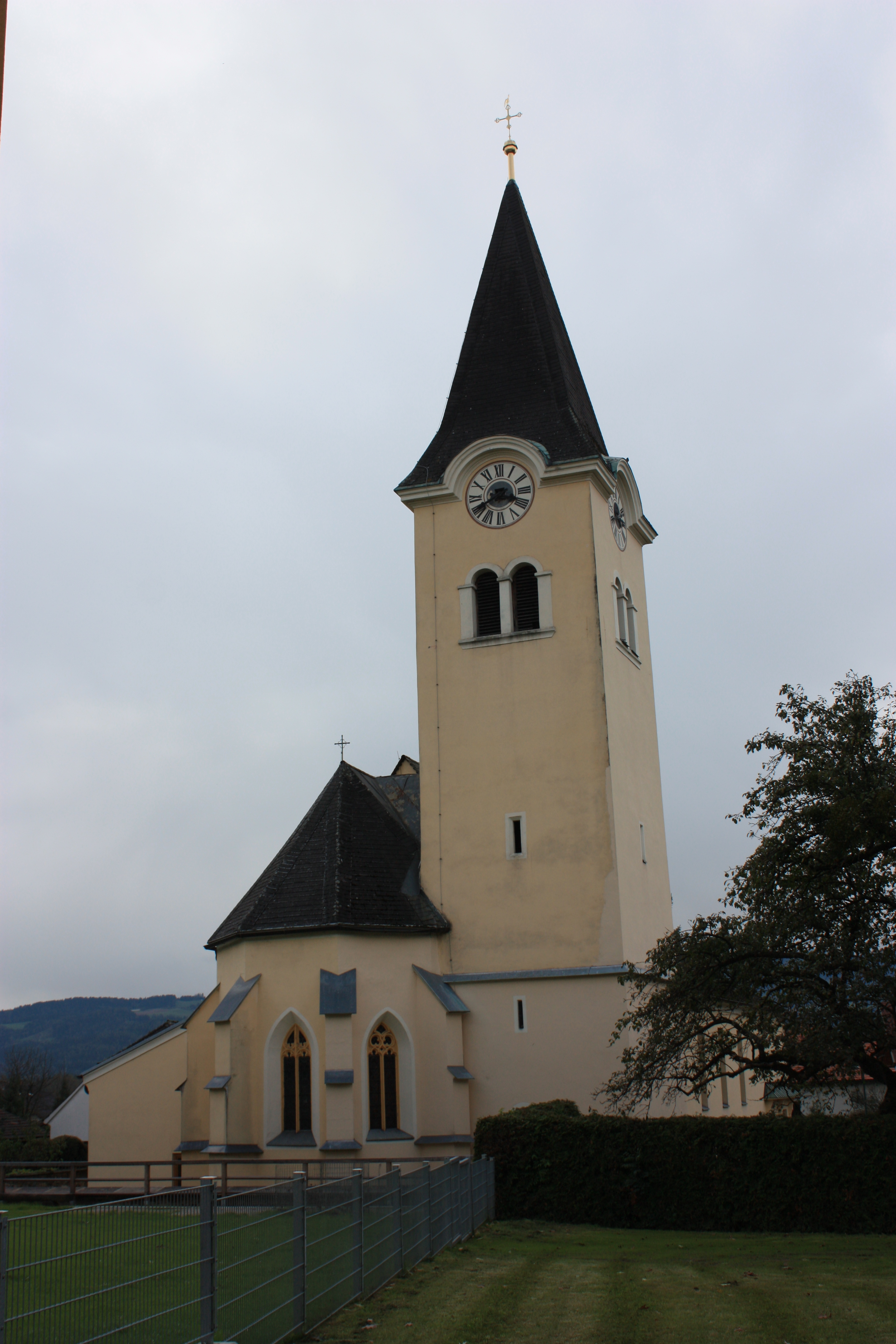 Parish church Saint Stephanus Locality: Sankt Stefan im Lavanttal Community:Wolfsberg